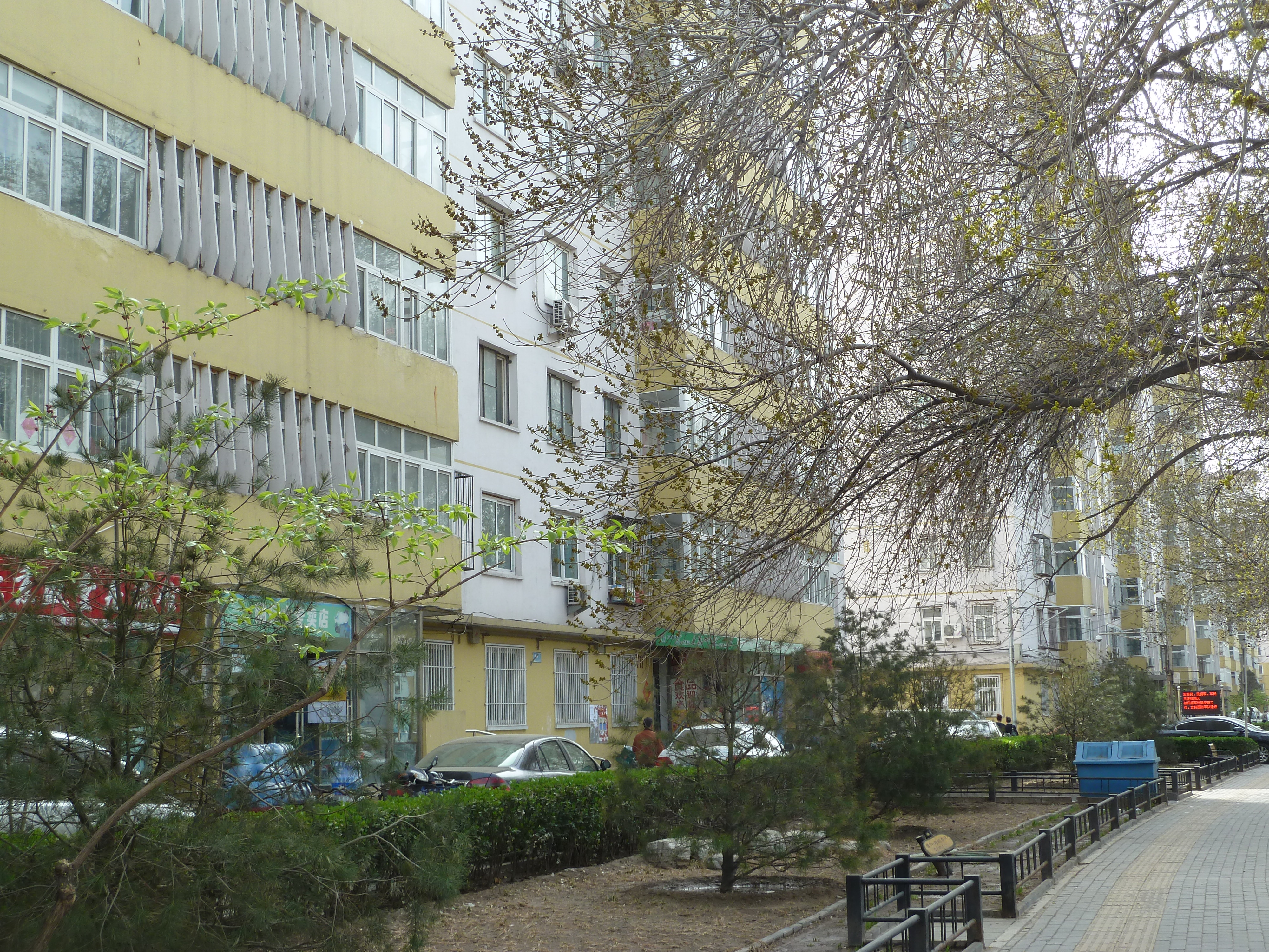 A apartment block located on a side street in China.